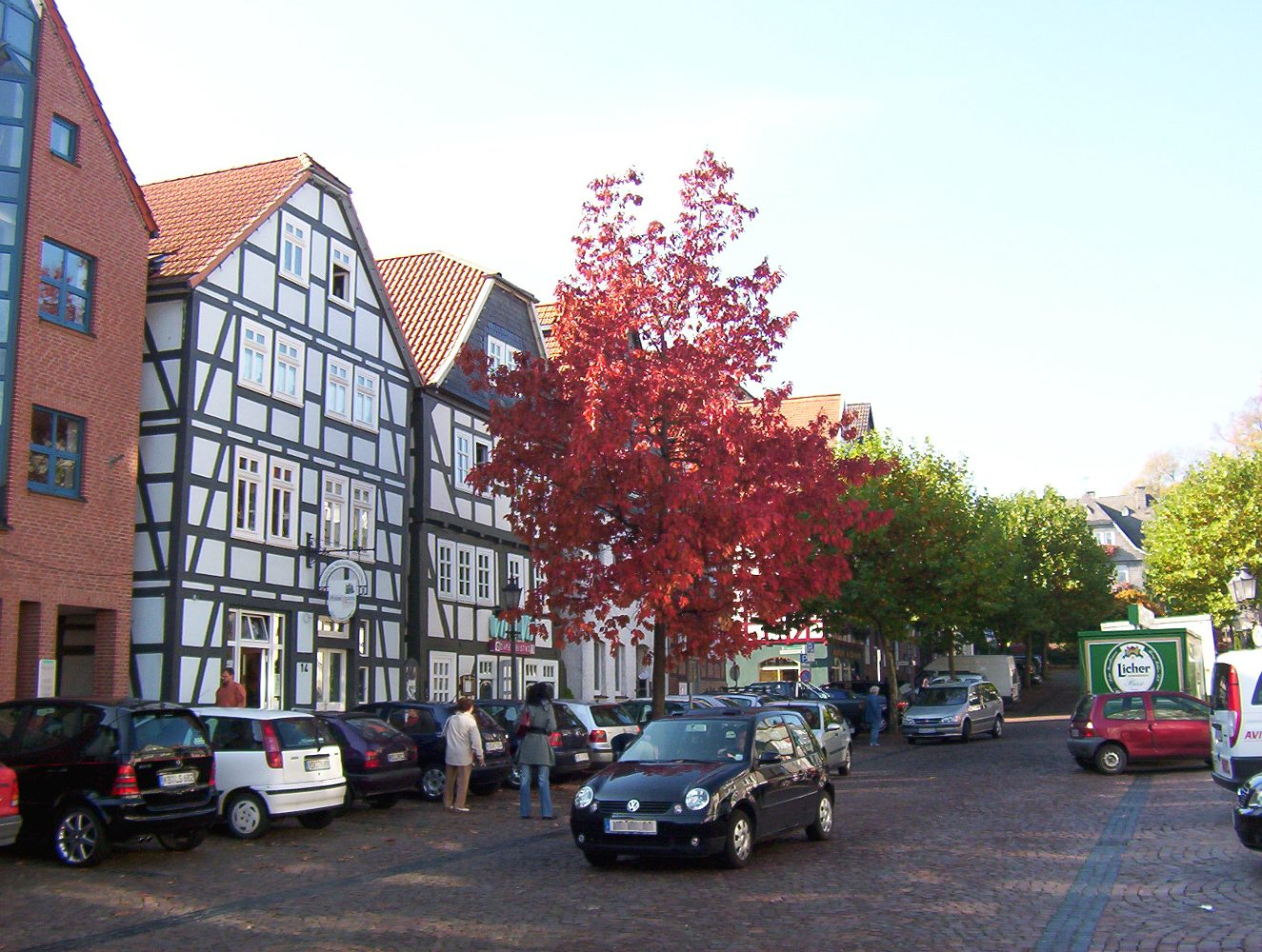 Germany / Hesse: Frankenberg (Eder)